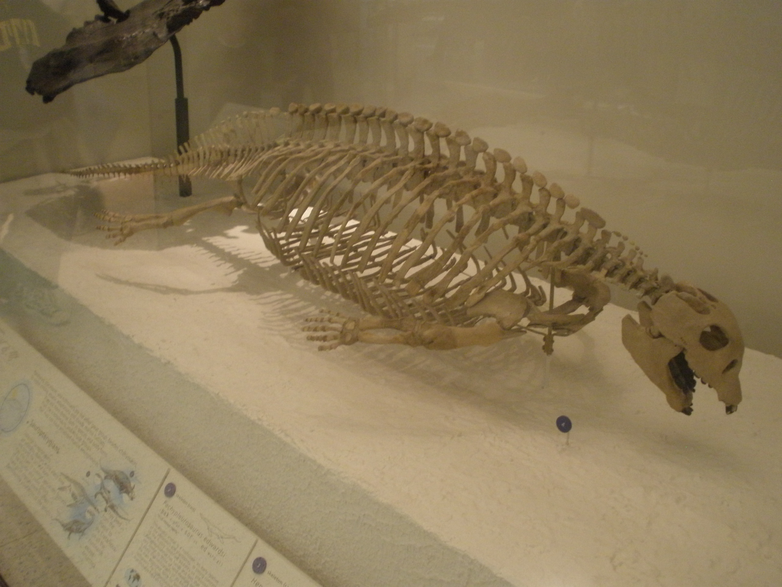 Fossil of Placodus gigas, a fossil placodont